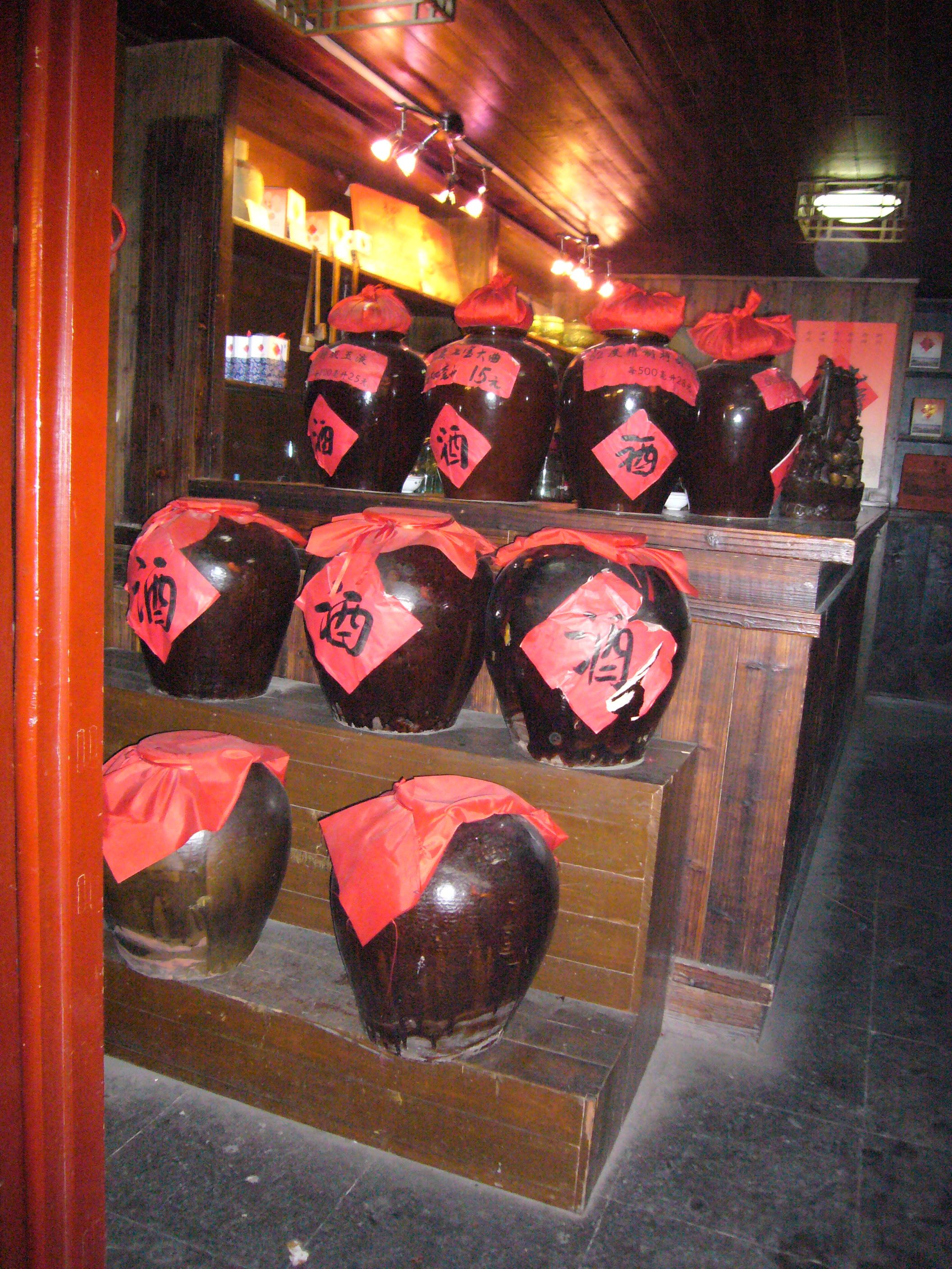 Chinese rice wine containers